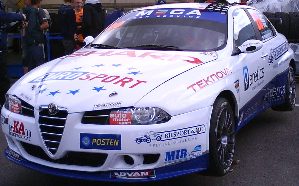 Mattias Andersson's Alfa Romeo 156 GTA at Falkenbergs Motorbana, STCC 2009